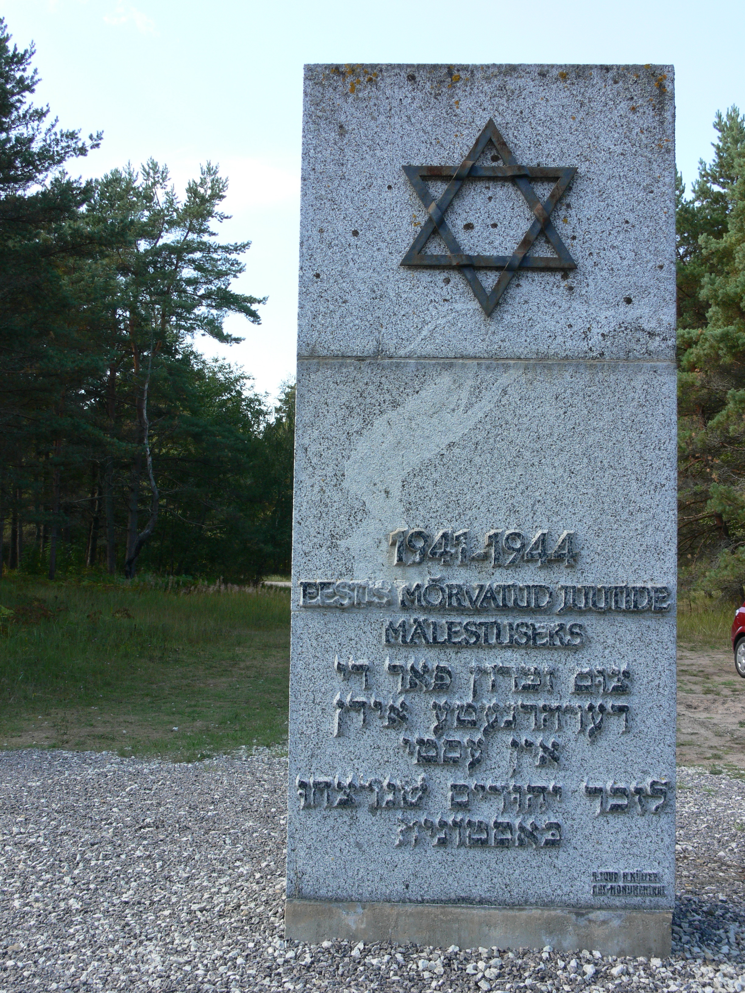 Holocaust memorial in Klooga, Estonia.